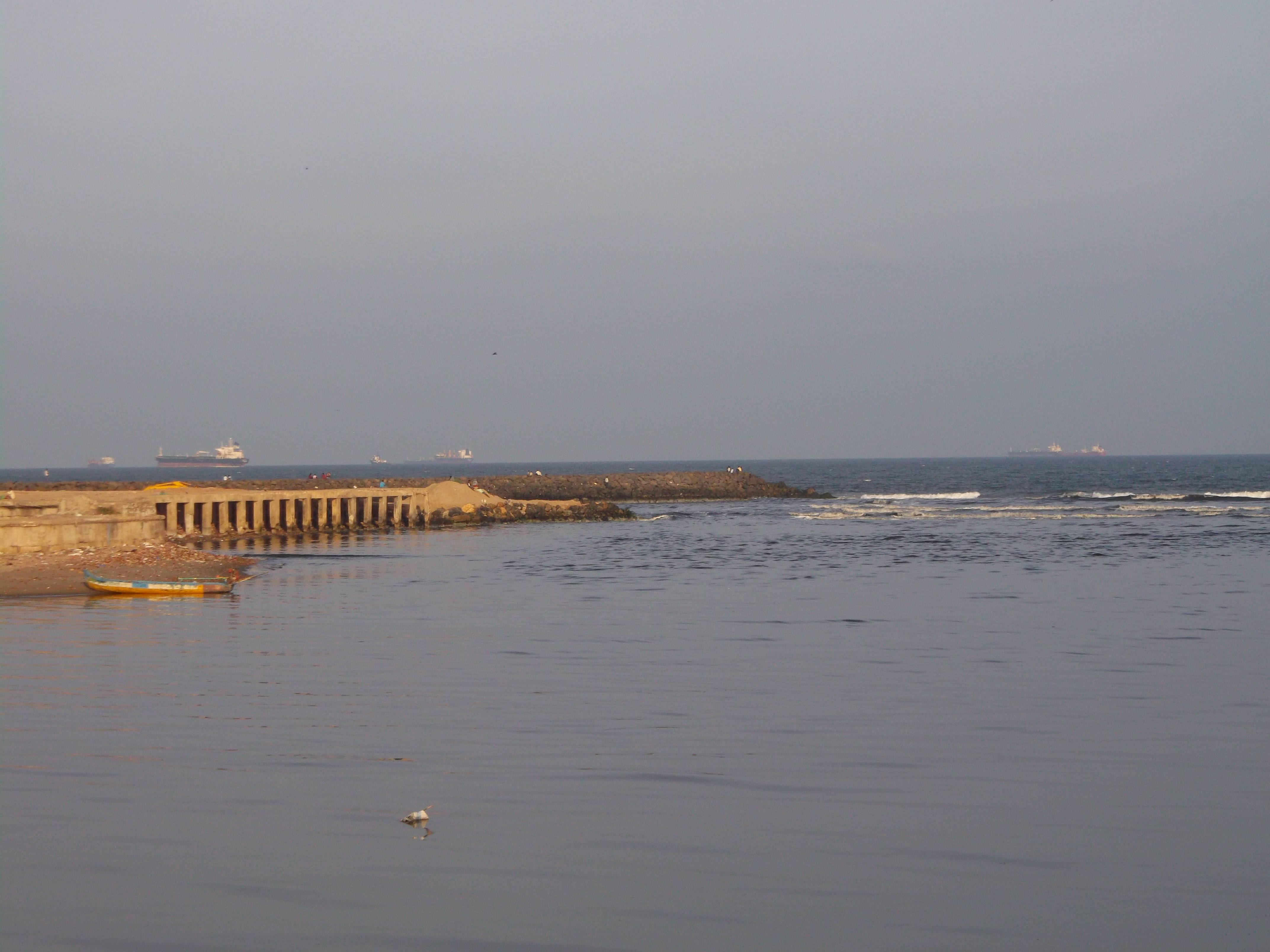 Causeway at the Cooum Delta, Chennai, taken on 2-Feb-2013 at 5:20 pm